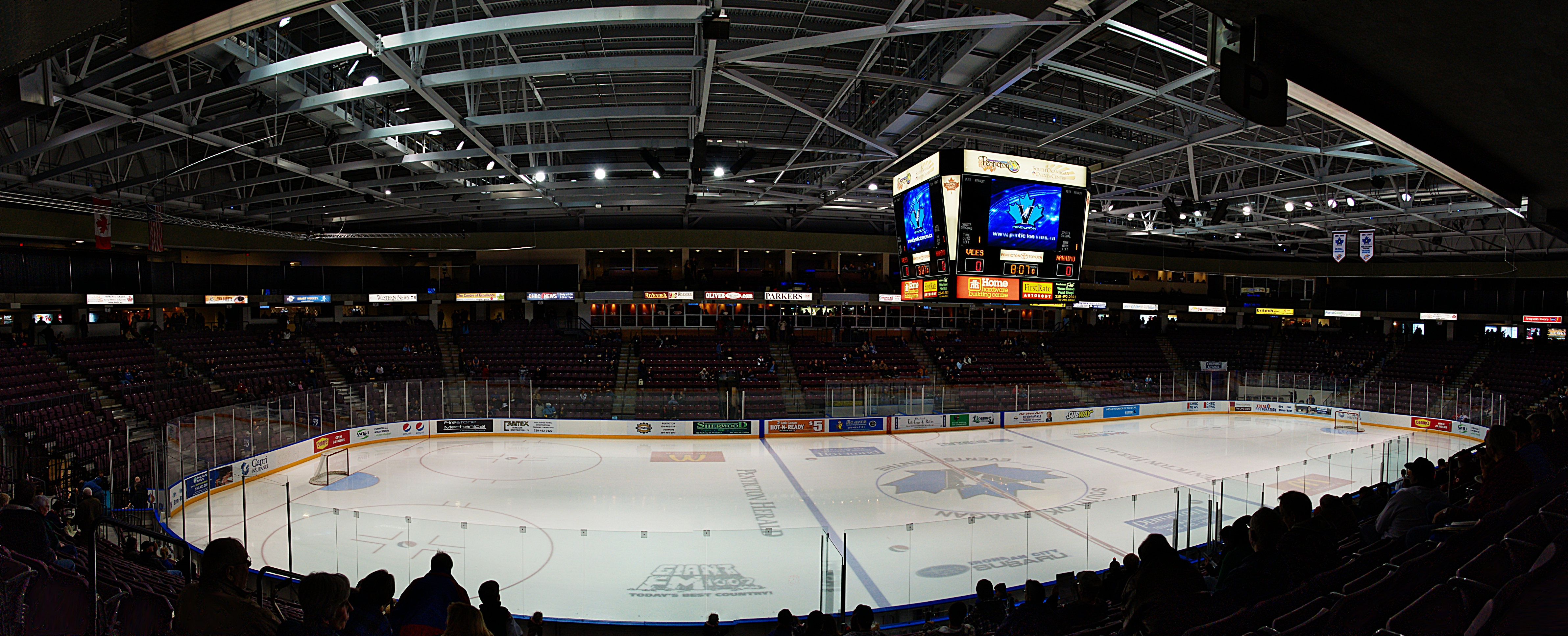 Stitched from four frames using hugin. Original size 4769x1936px.